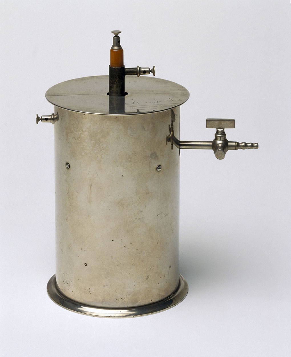 This device was developed by Curie (1859-1906) for radioactivity investigations. It includes a positive and negative plate connected by an electrometer, and the air within the chamber is ionised by radiation. The breakdown of air molecules into positive and negative ion pairs allows them to act as carriers of electric current. Negative ions migrate to the positive plate and positive ions to the negative plate, causing an electric current to flow. The level of radioactivity determines the current's strength.